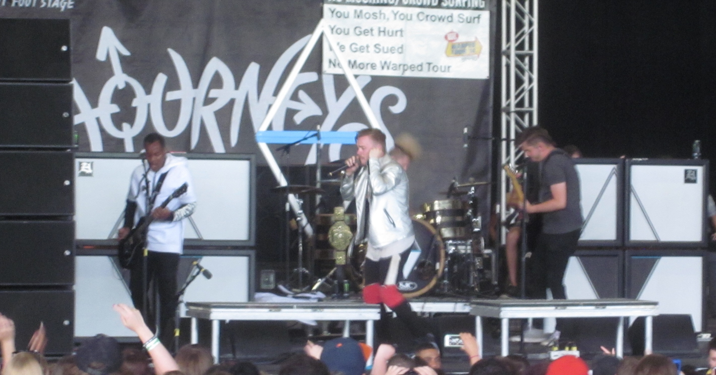 Set It Off performing at Warped Tour at the XFINITY Theatre in Hartford, Connecticut in 2015. Photo by Peter Dzubay. Does anyone else think that Cinematics Cody was hot?